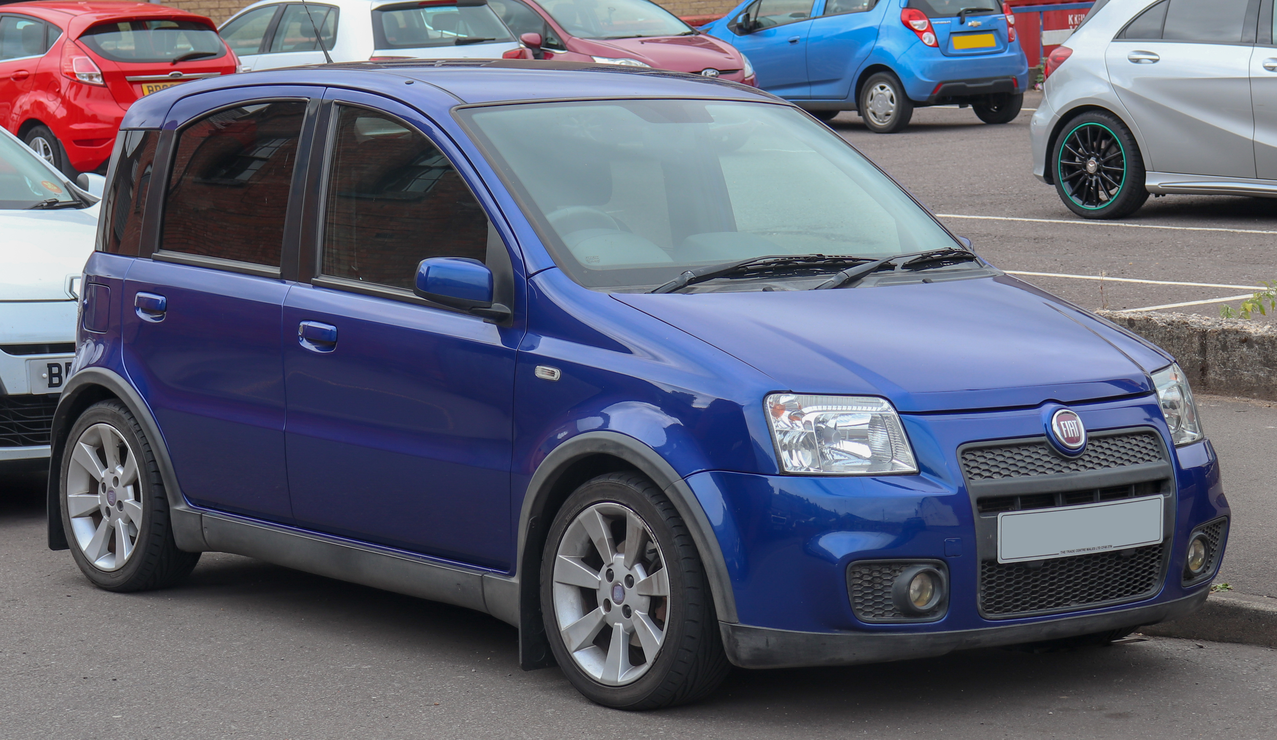 2009 Fiat Panda 100HP 1.4 Front Taken in Leamington Spa